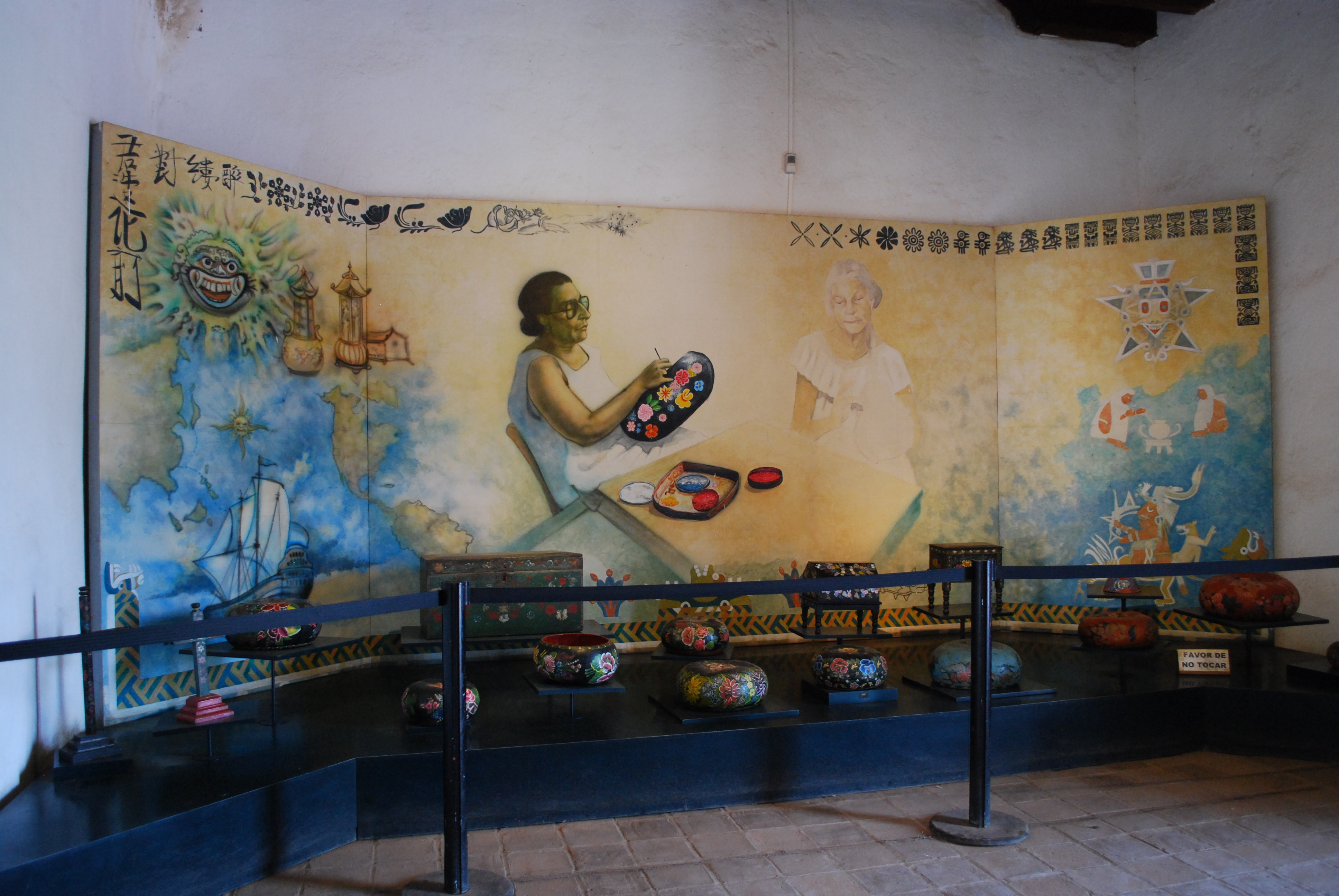 First display upon entering the Museo de Laca in Chiapa de Corzo, Chiapas, Mexico